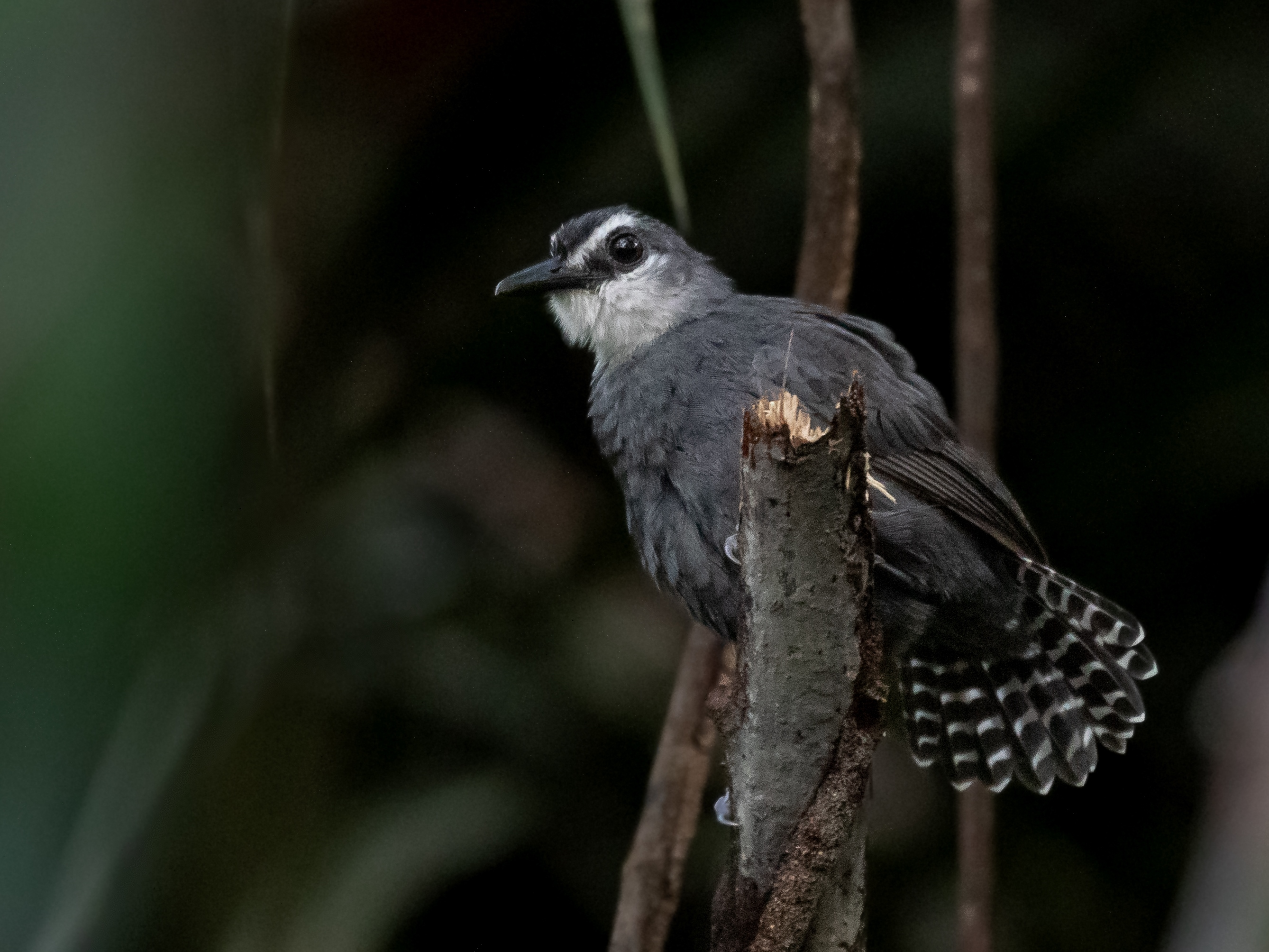 White-throated antbird (male); Careiro, Amazonas, Brazil